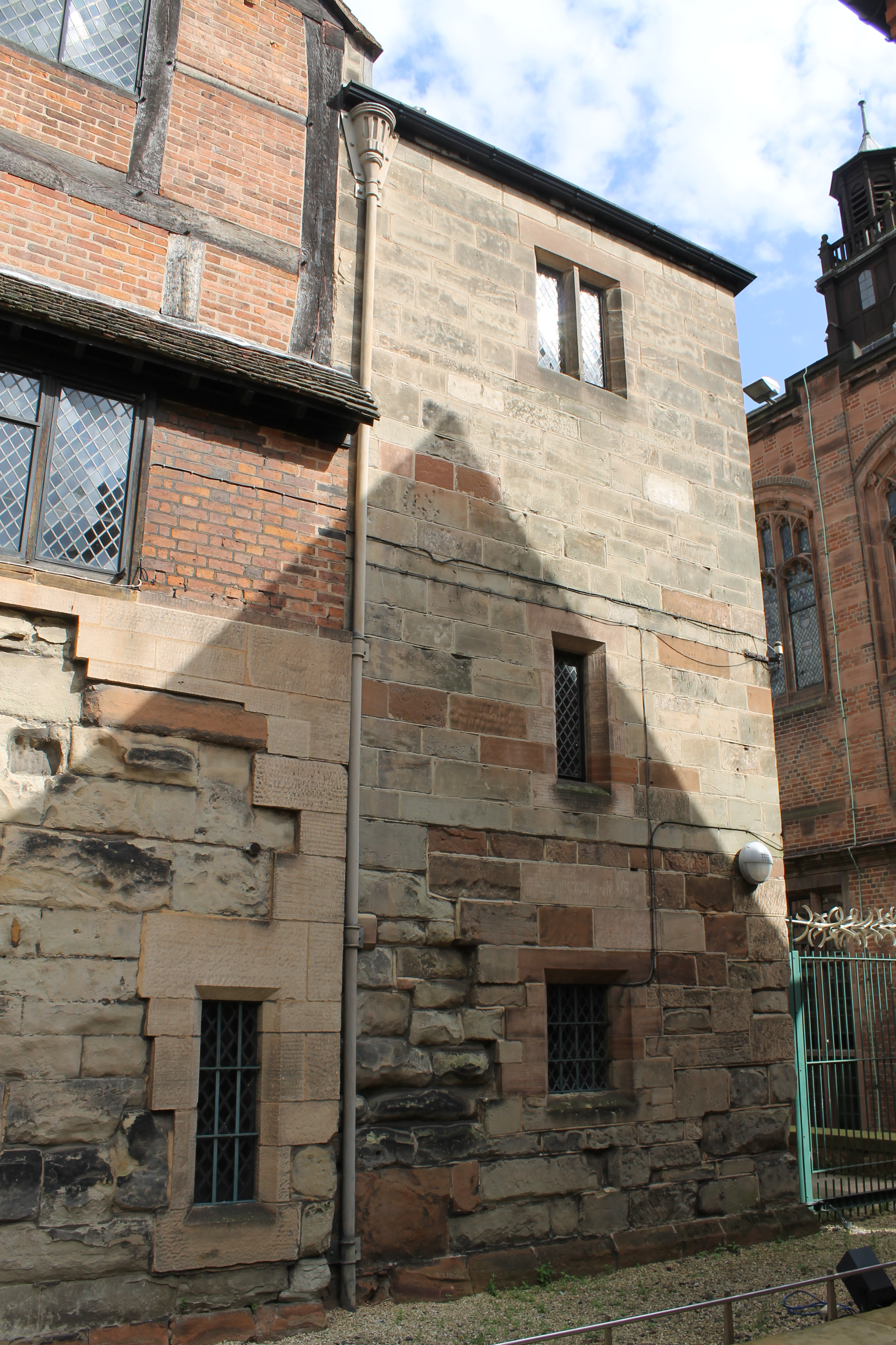 The exterior of Caesar's Tower, all that remains of Coventry Castle.